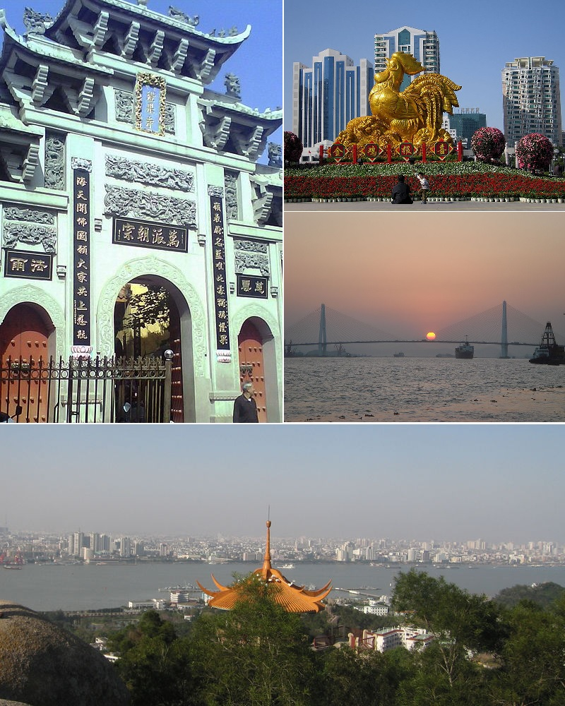 Shantou (Swatow) Montage